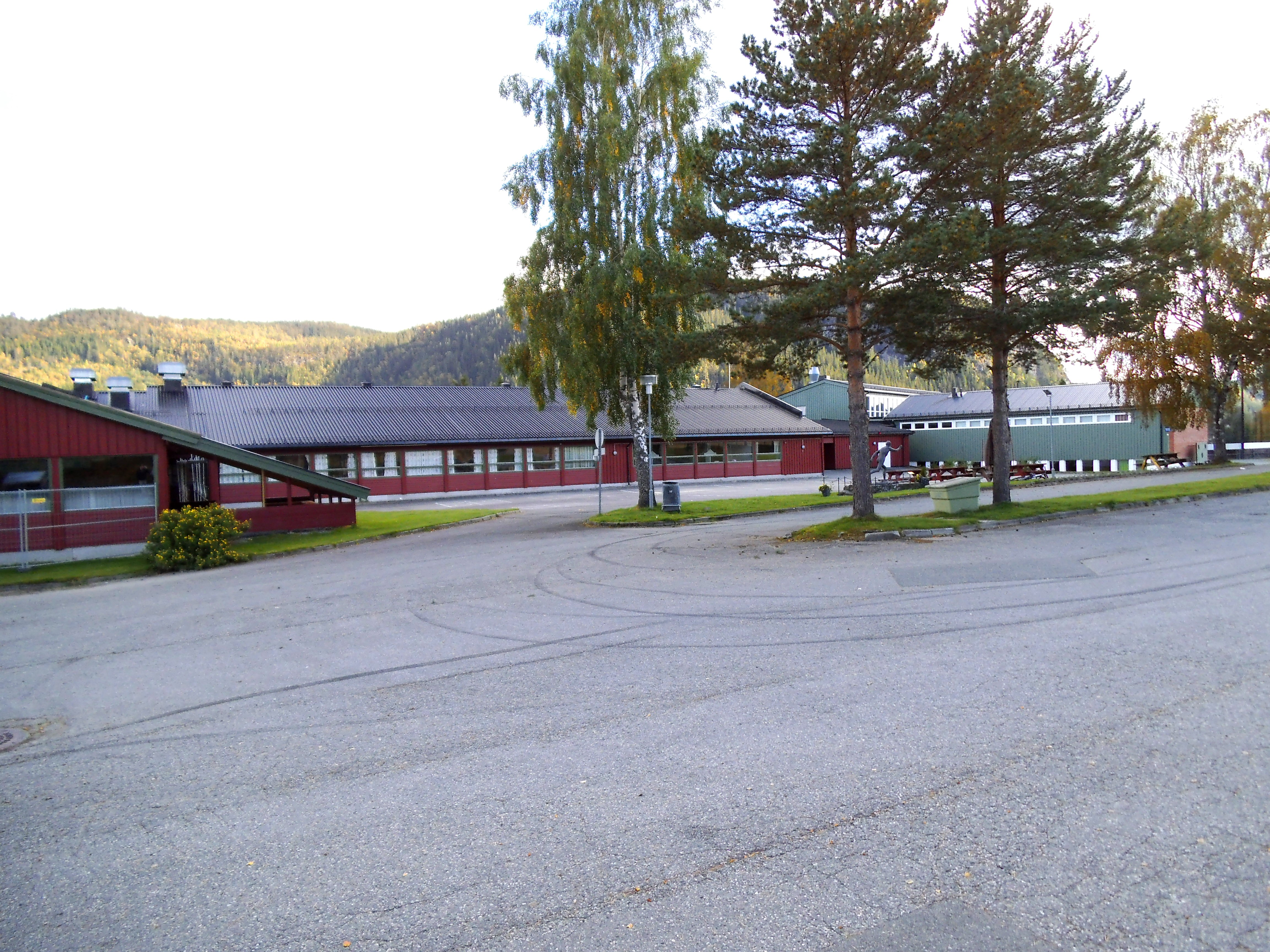 Junior high